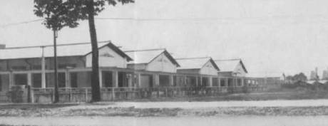 Shows the five wings of the American Community School (grades 1-12) in Saigon, South Vietnam, located near Tan Son Nhut international airport. The school itself was created in 1954. These buildings on this site were built about 1958-59. They were turned over to use of the 3rd Field Hospital of the U.S. Army in February 1965 after the school was closed, when all U.S. government dependents were ordered out of South Vietnam by President Lyndon Johnson.